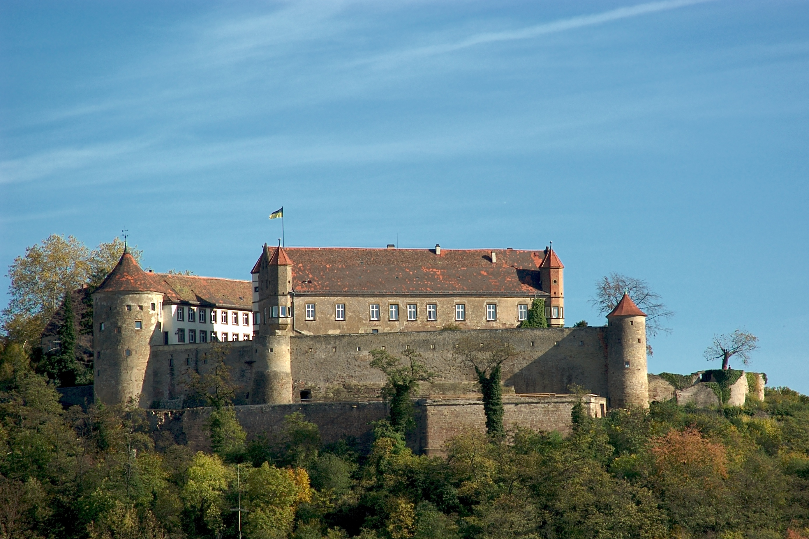 Photographer: Allan Hise (me), I took this picture from a public place in Germany. Location: Burg Stettenfels, Untergruppenbach, Baden-Württemberg, Germany